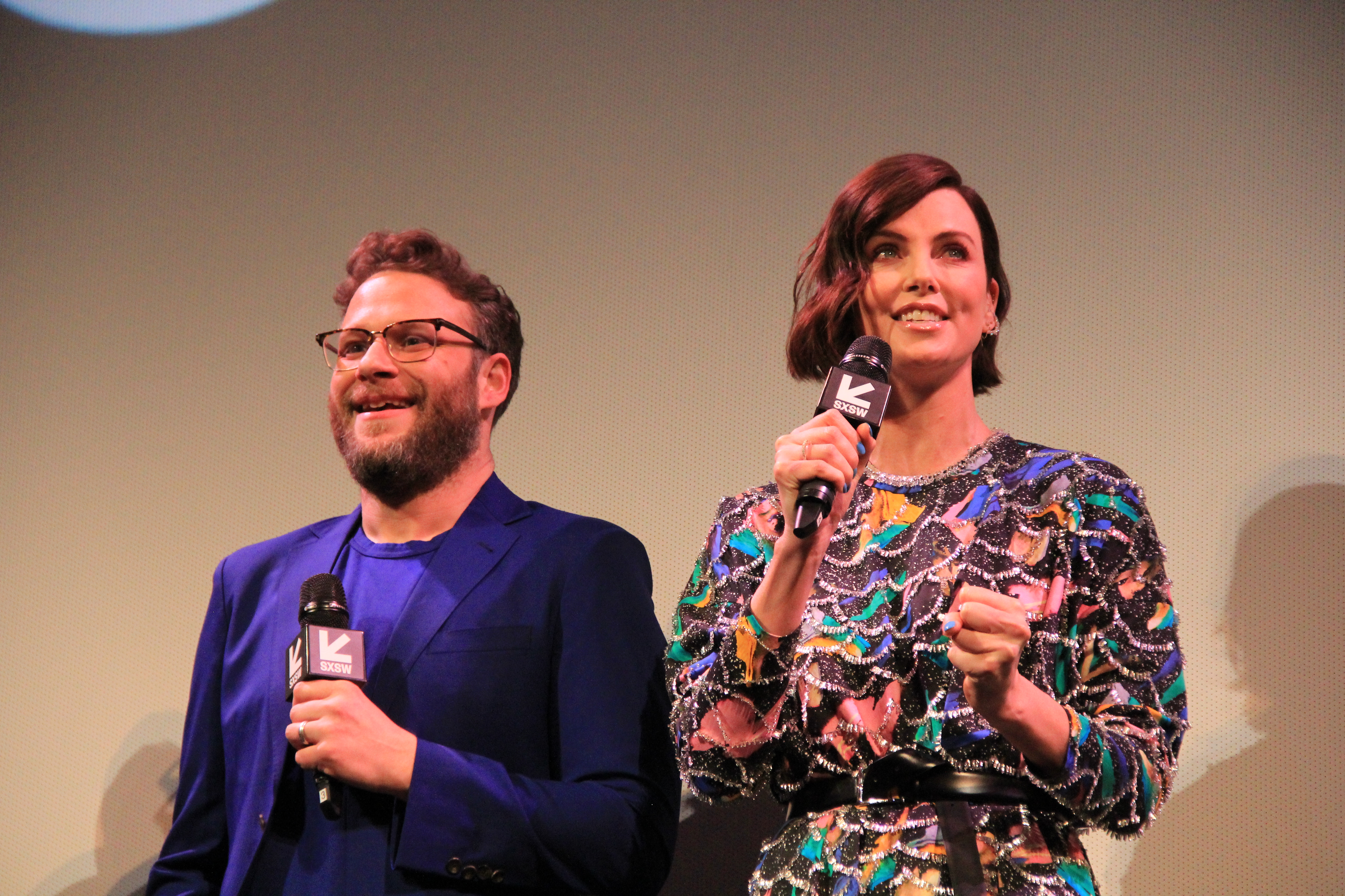 Seth Rogen and Charlize Theron